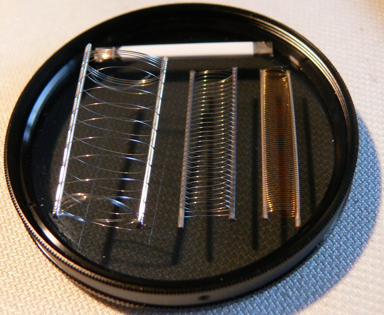 The grids and cathode of an EL84 power pentode placed on a 55 mm polaroid filter